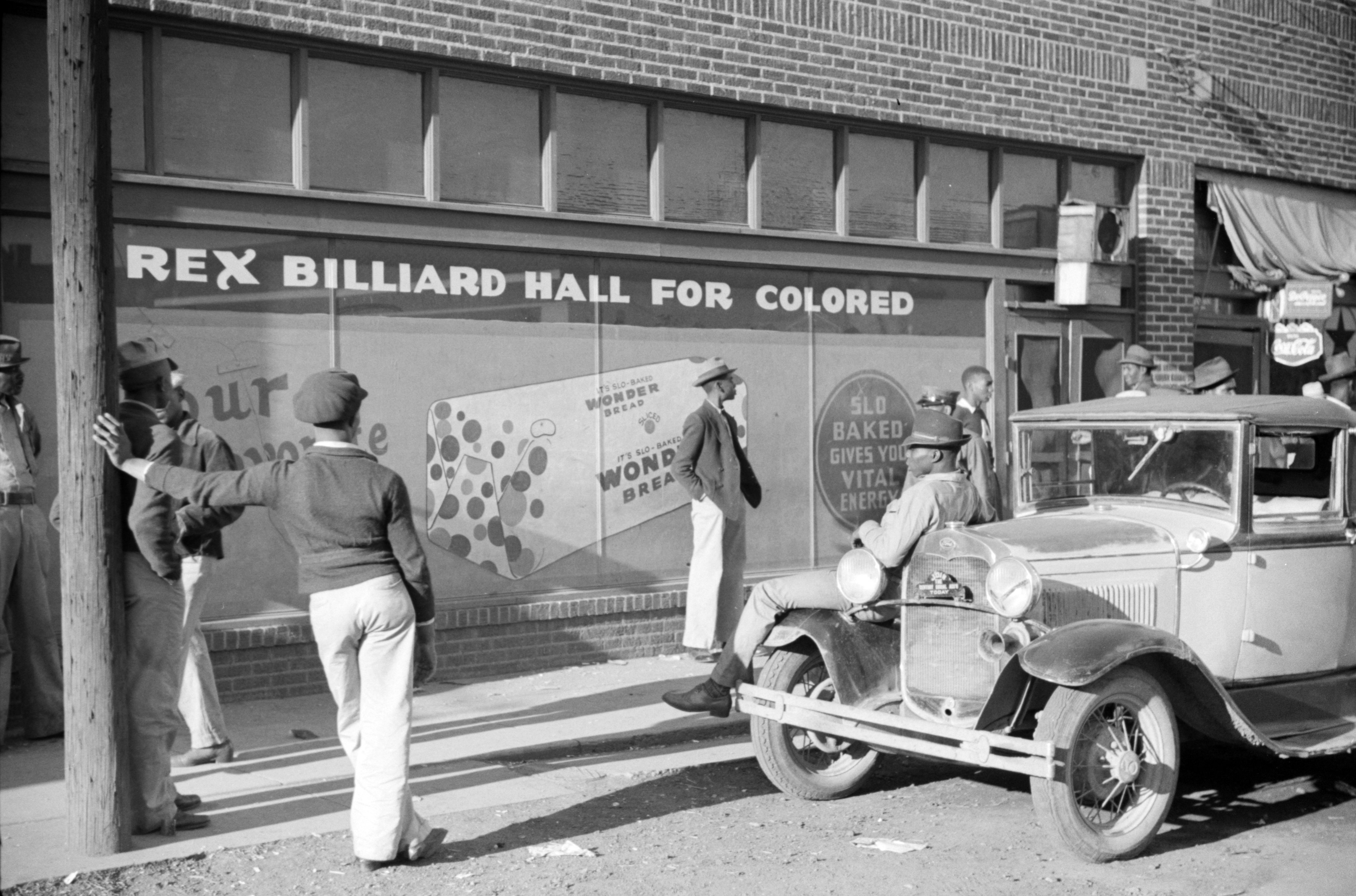 "Beale Street, Memphis, Tennessee." [Sign: "Rex Billiard Hall for Colored."] Location: E-936 Reproduction Number: LC-USF33-30639-M1